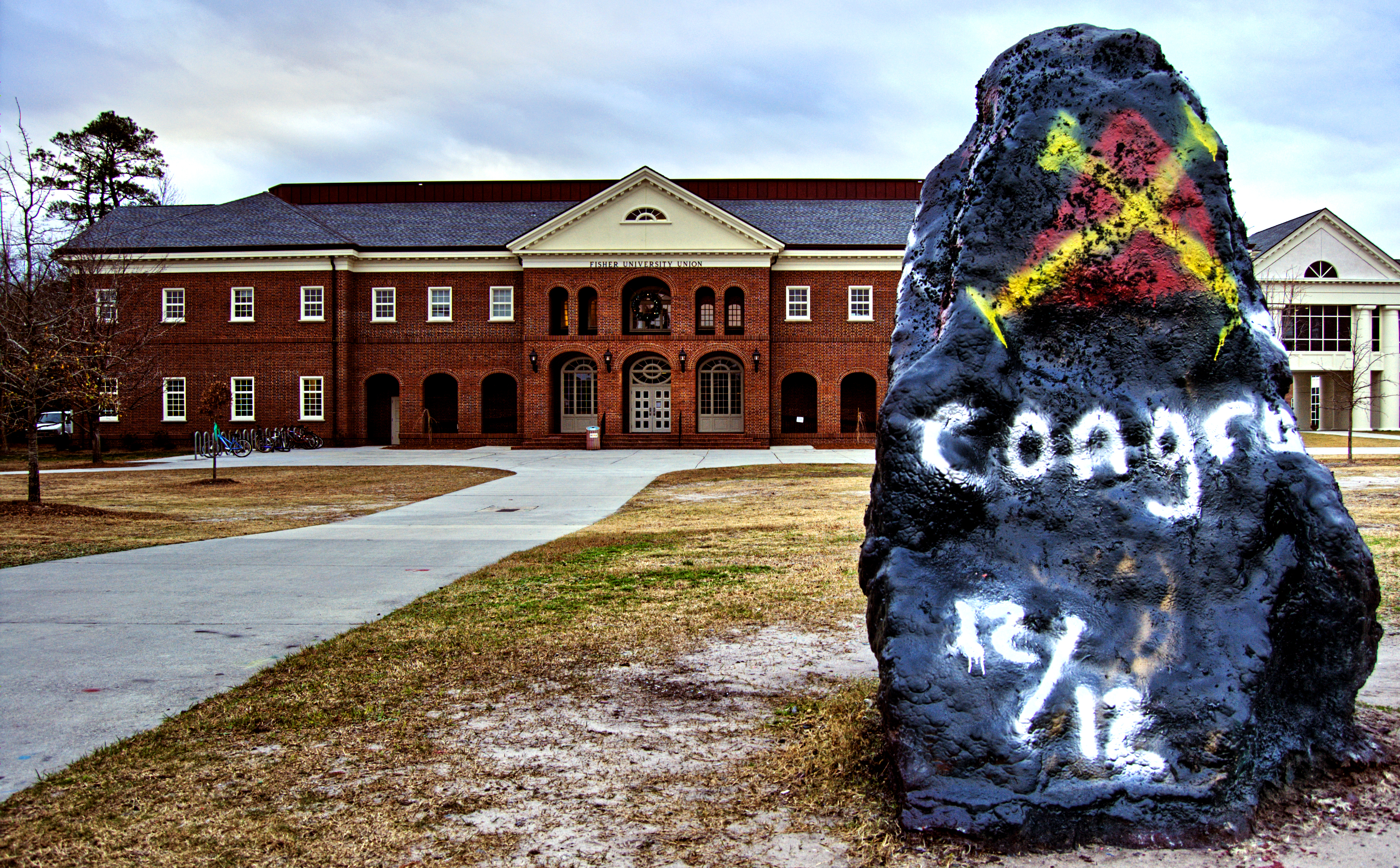 An image of a painted rock in the foreground with a brick two-story institution in the background. The words "Fisher University Union" appear above the entrance to the building.